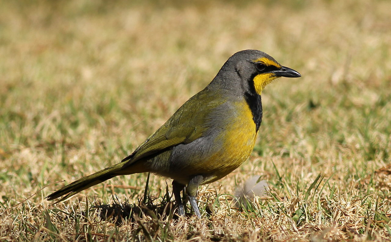 Bokmakierie at Walter Sisulu National Botanical Garden, South Africa